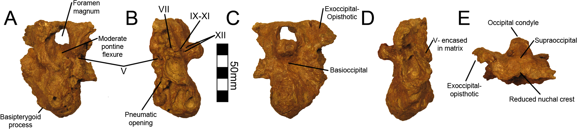 Nothronychus (MSM P2117) braincase. The braincase preserved with MSM P2117 in (A) cranial, (B) left lateral, (C) caudal, (D) right lateral, and (E) dorsal views. Scale = 50 mm.